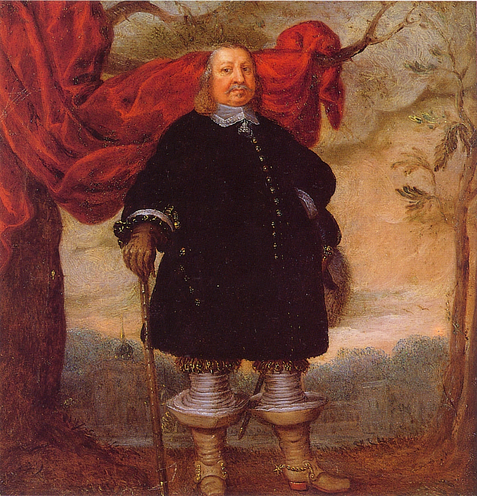 Herzog Friedrich III. of Gottorf in front of buildings of the Neuwerkgarten (bottom in the background), Oil on Copper, 17x16cm